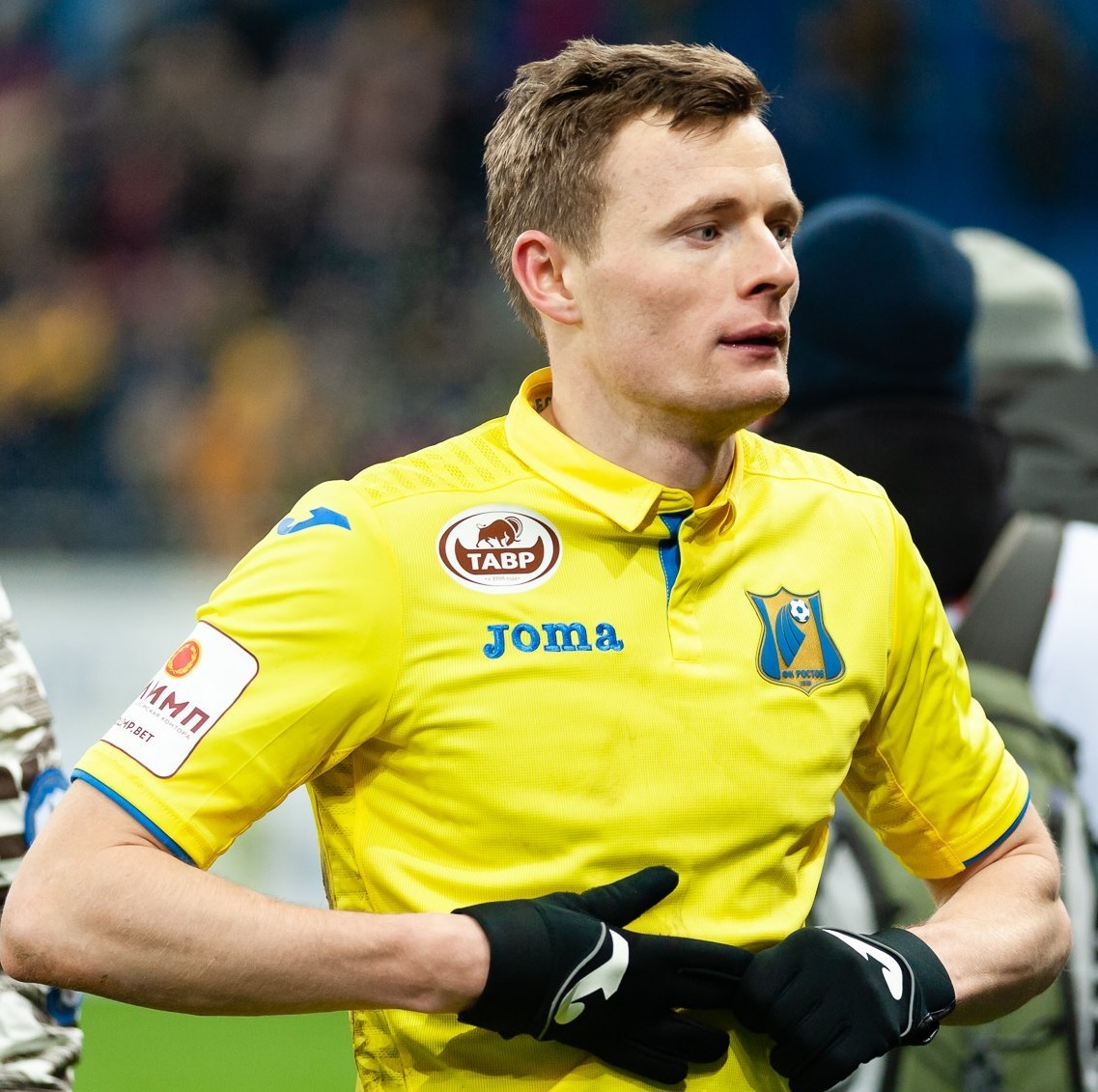 Yevgeni Chernov with FC Rostov in a Russian Cup game against FC Krasnodar.